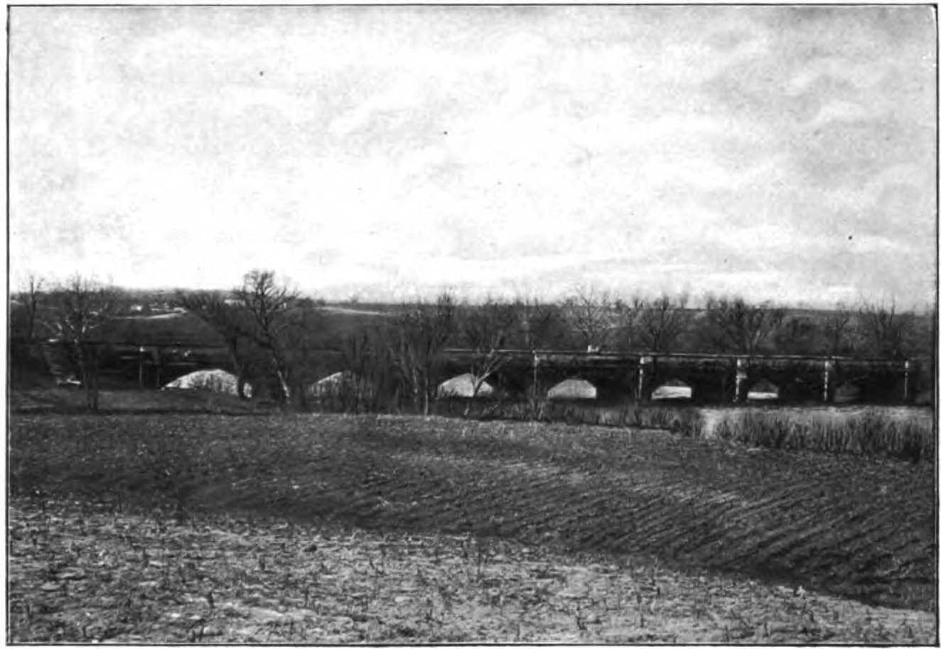 Plate XXIX, Figure 1 of 1898 publication called Maryland Geological Survey Volume Two. Caption:Monocacy Aqueduct, white quartzite from Belt's Quarry